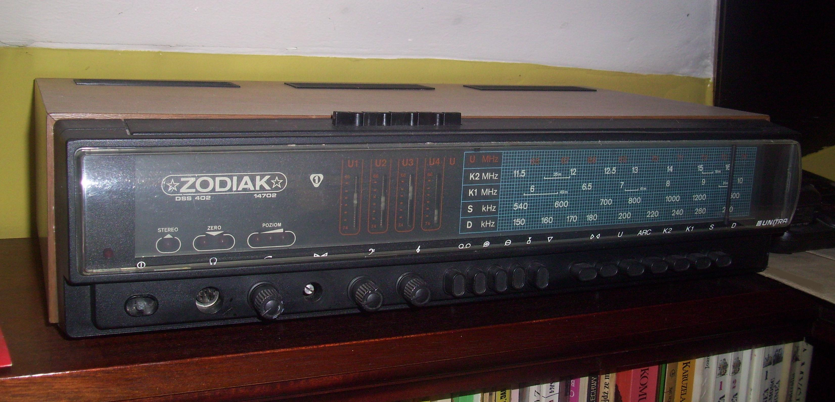 Radio Zodiak DSS-402 (front).